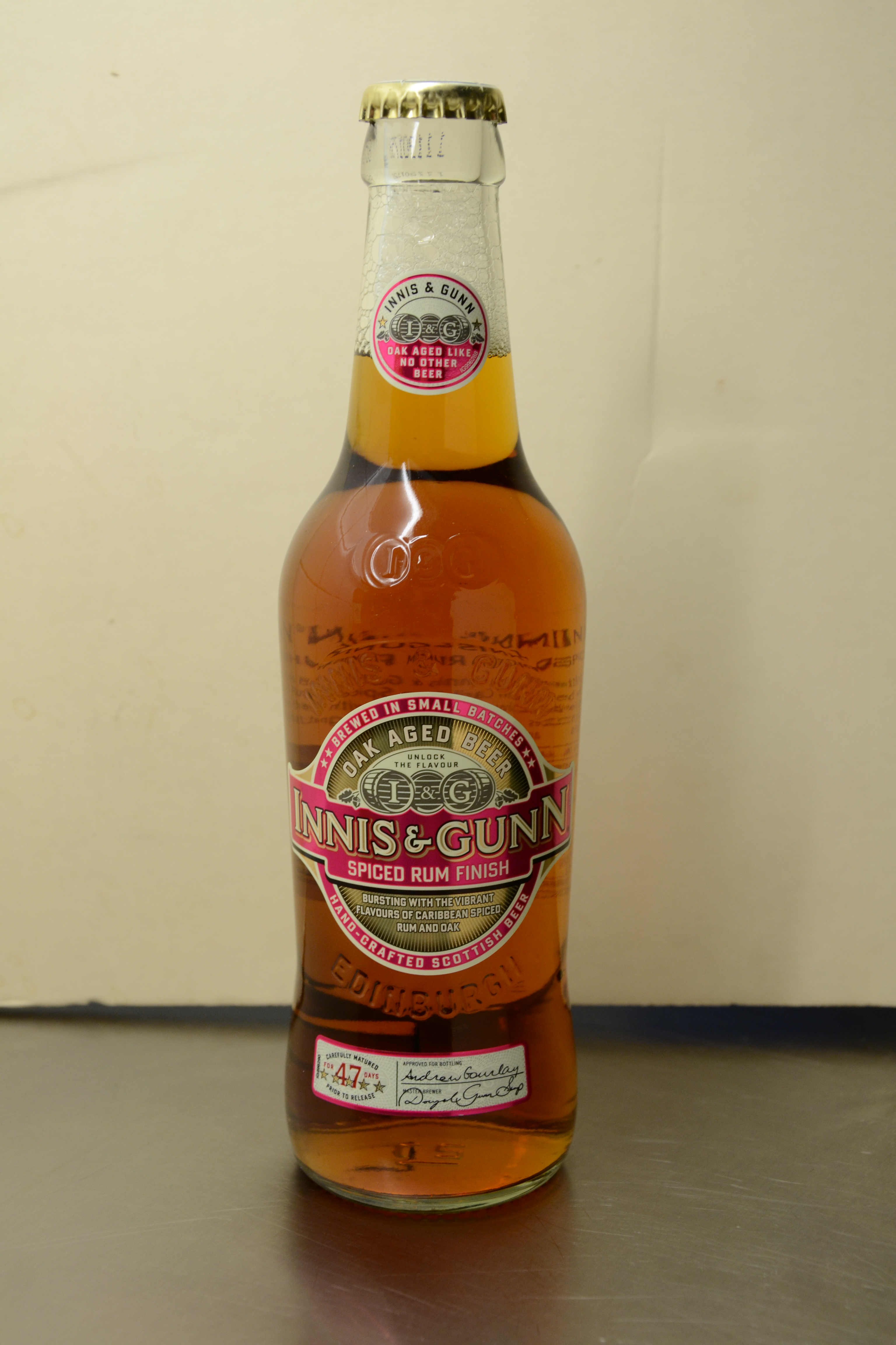 Innis & Gunn, Spiced Rum FInish, limited edition on sale october 2011